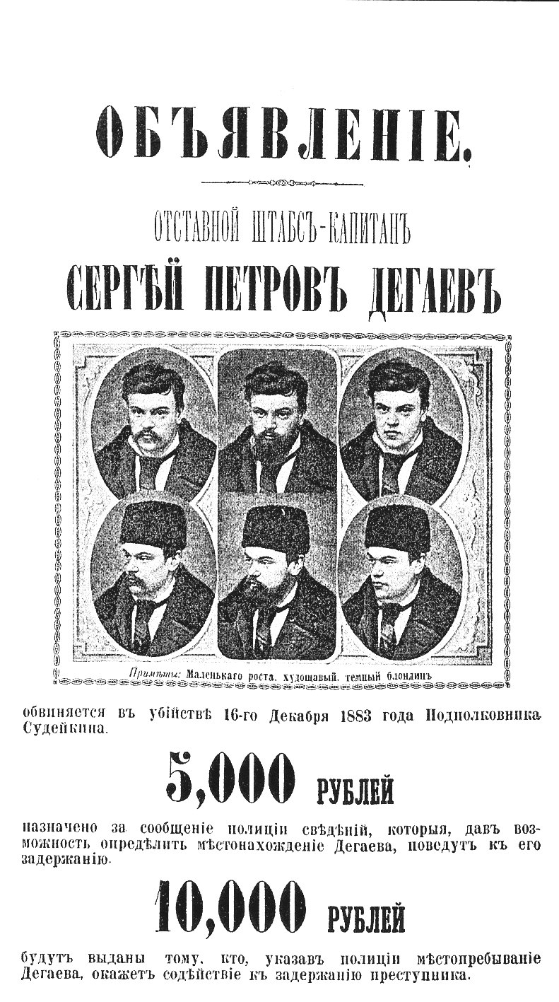 Poster with reward for help in Degayev's apprehension